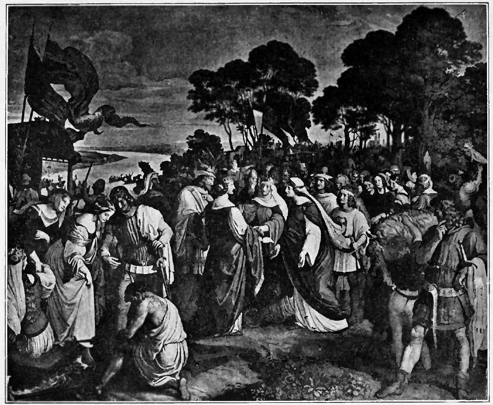 Captioned as "Gunther and Brunhilde arrive at Burgundy and are received by Kriemhild".